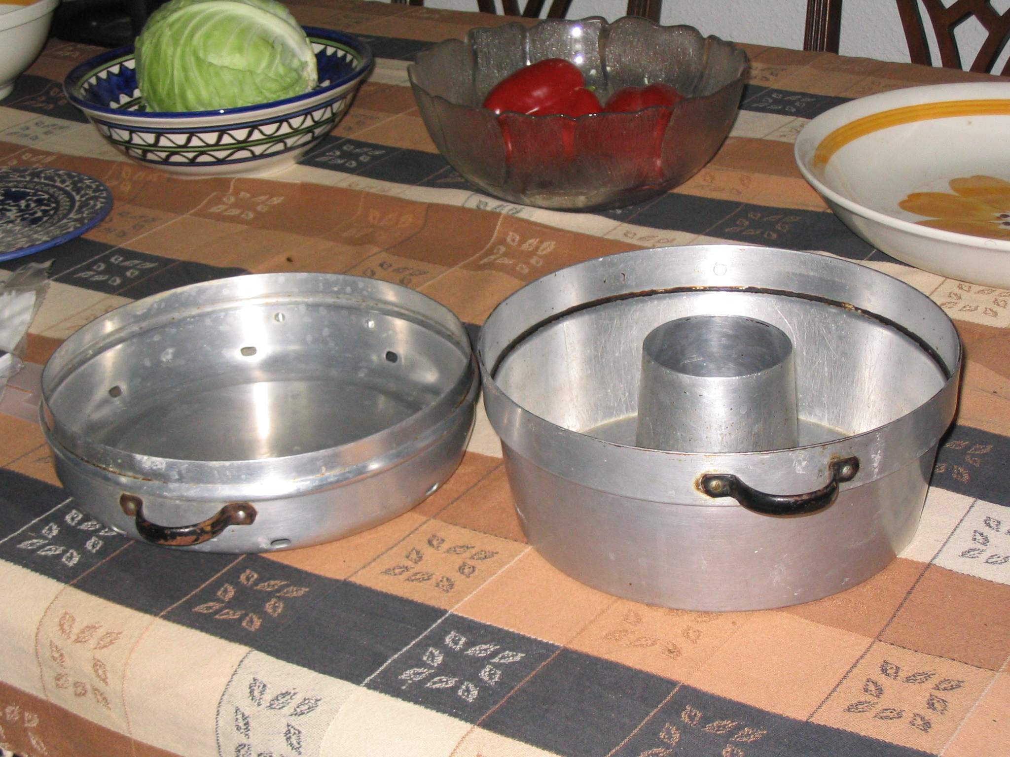 an open wounder pan with it's cover